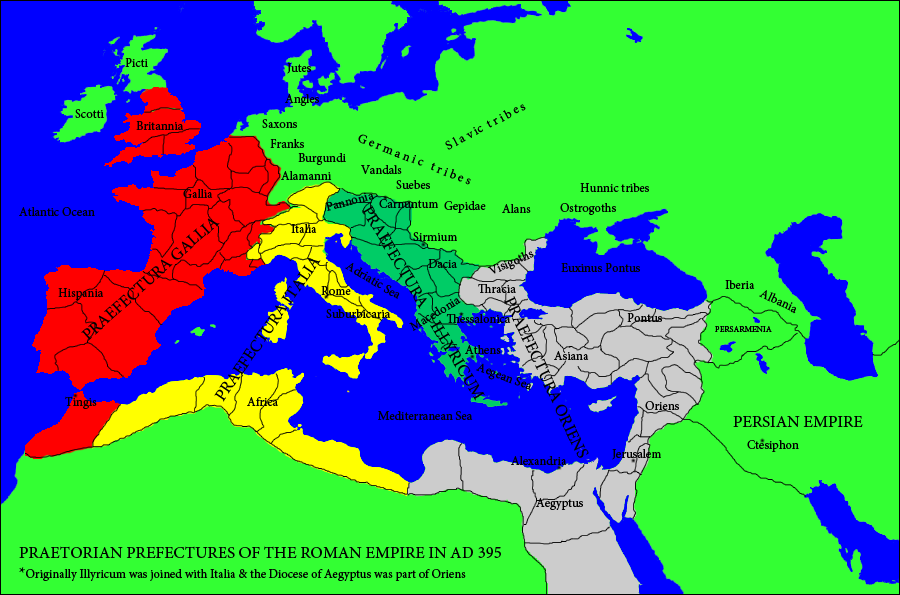 Praetorian Prefectures of the Roman Empire 395 AD. Gallia, Italia, Oriens, Illyricum